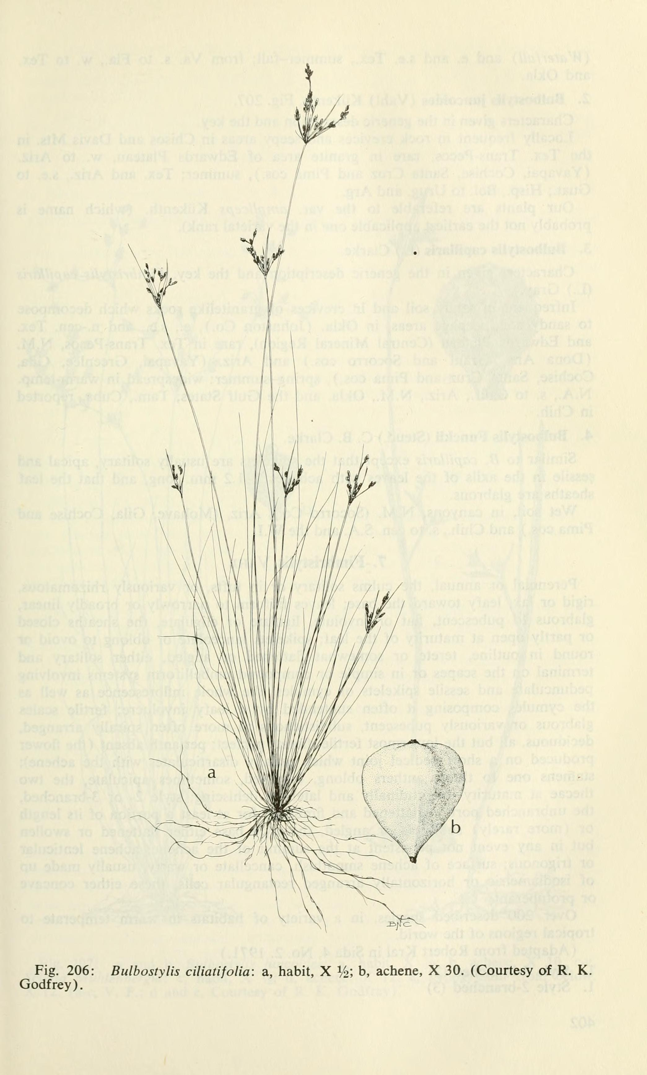 Title: Aquatic and wetland plants of southwestern United States Year: 1972 (1970s) Authors: Correll, Donovan Stewart, 1908-; Correll, Helen B Subjects: Aquatic plants -- Southwestern States; Wetland plants -- Southwestern States Publisher: [Washington Environmental Protection Agency; [For sale by the Supt. of Docs. , U. S. Govt. Print. Off. Text Appearing Before Image: ' Text Appearing After Image: Fig. 206: Bulbostylis ciliatifolia: a, habit, X Vz; b, achene, X 30. (Courtesy of R. K. Godfrey).